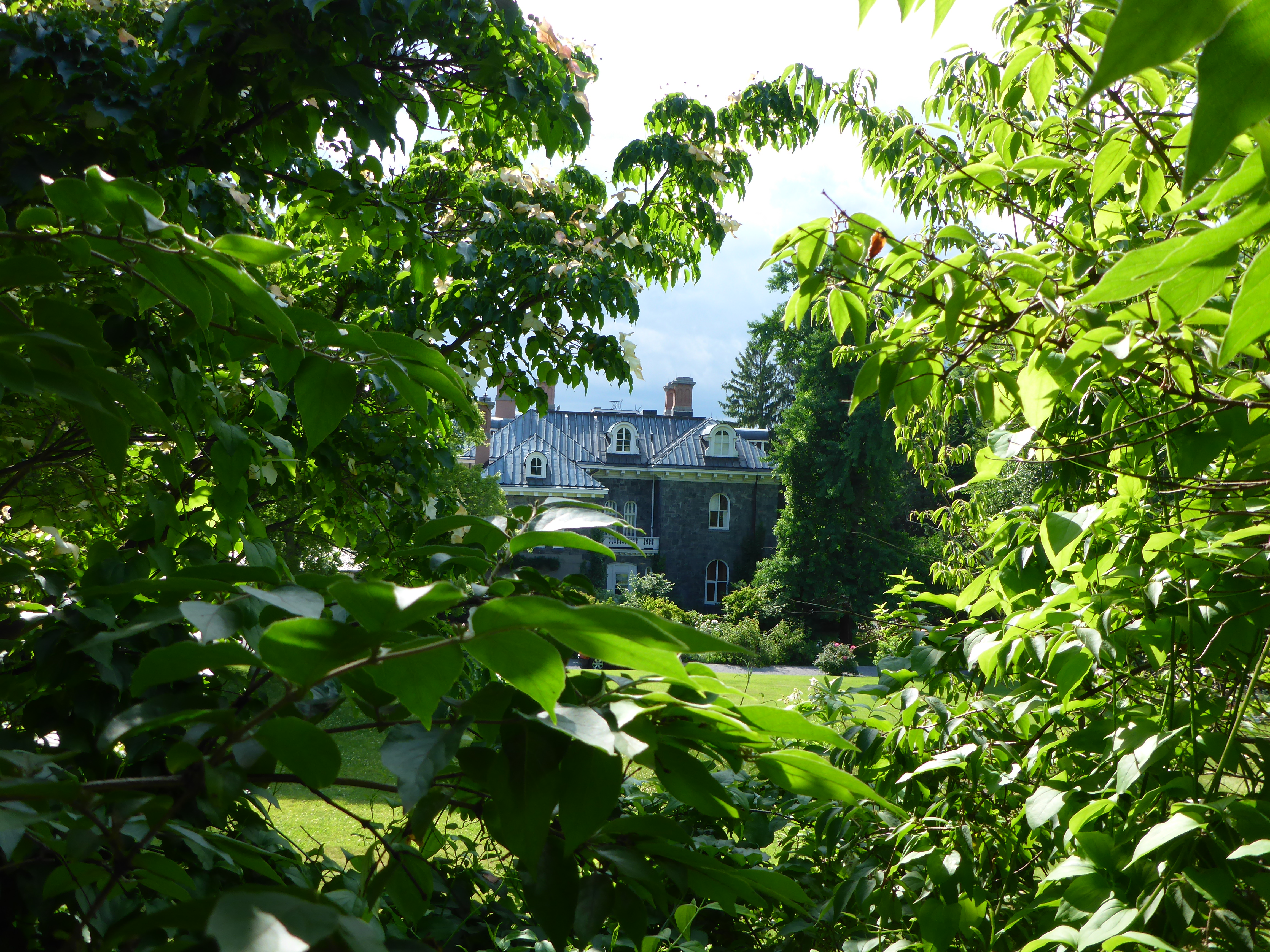 Looking west from Sycamore Avenue at Robert Colgate House, Bronx NY